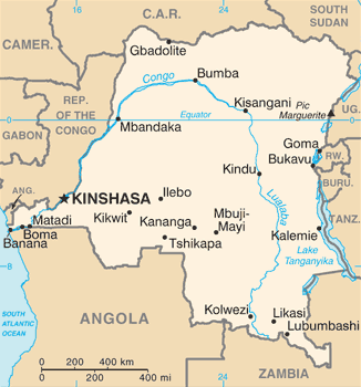 Democratic Republic of the Congo map from CIA World Factbook, converted from original GIF format (July 2011 version showing South Sudan)